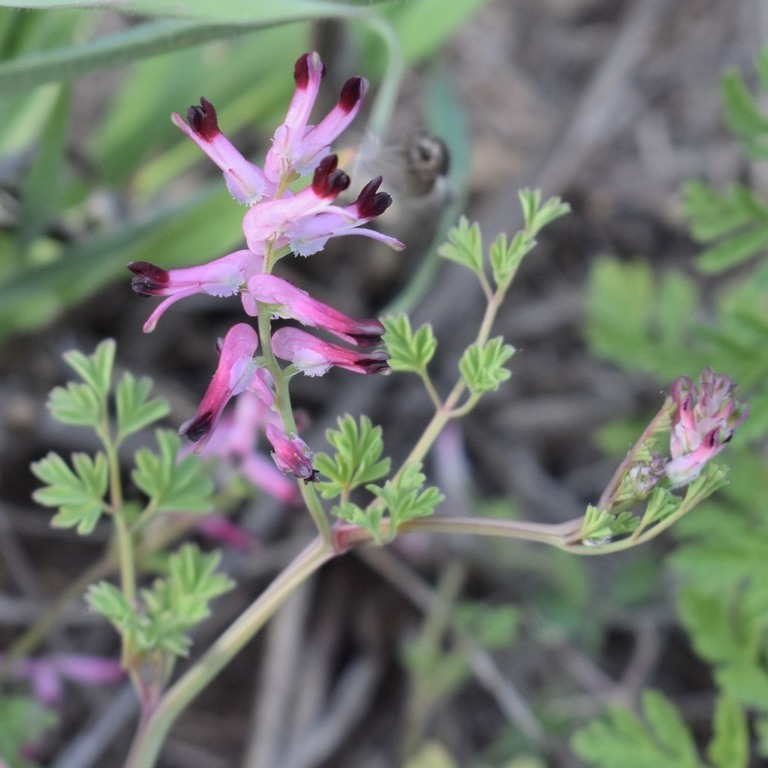 F. muralis - first leaves